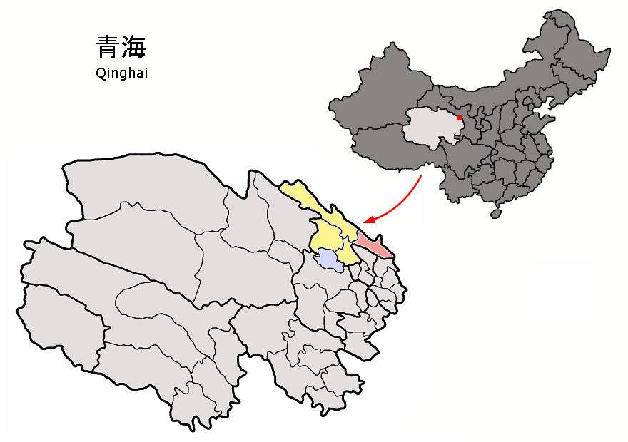 Location of Menyuan County (pink) and Haibei Prefecture (yellow) within Qinghai province of China Map drawn in september 2007 using various sources, mainly : Qinghai province administrative regions GIS data: 1:1M, County level, 1990 Qinghai Counties map from "Plateau Perspectives" (the limits of some county-level subdivisions may not be accurate)